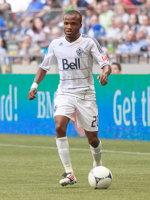 Dane RIchards, Vancouver Whitecaps FC v Real Salt Lake, 11 August 2012